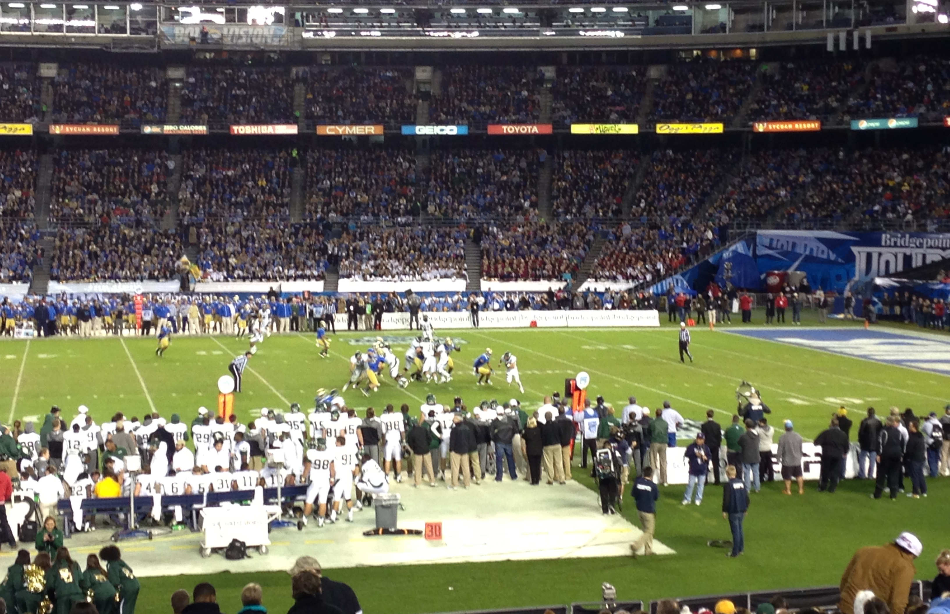 Gameplay during the 2012 Holiday Bowl between the Baylor Bears and the UCLA Bruins.